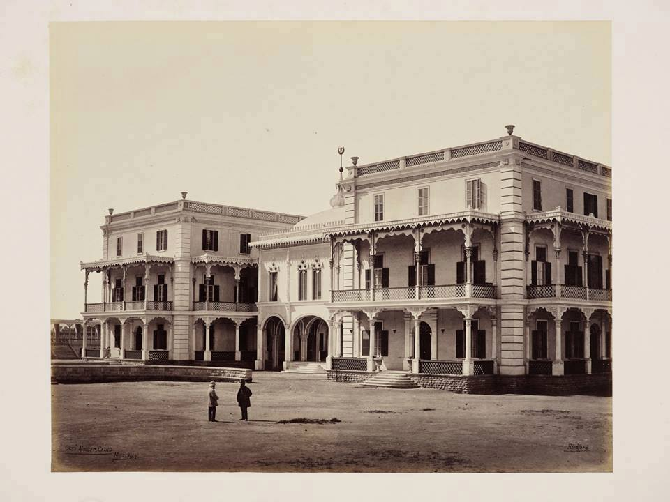 Tawfikia school in Shubra